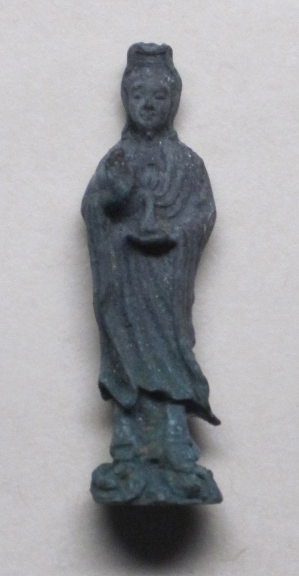 Japanese Maria-Kannon, bronce, height 43 mm (Collection W. Michel, Fukuoka)